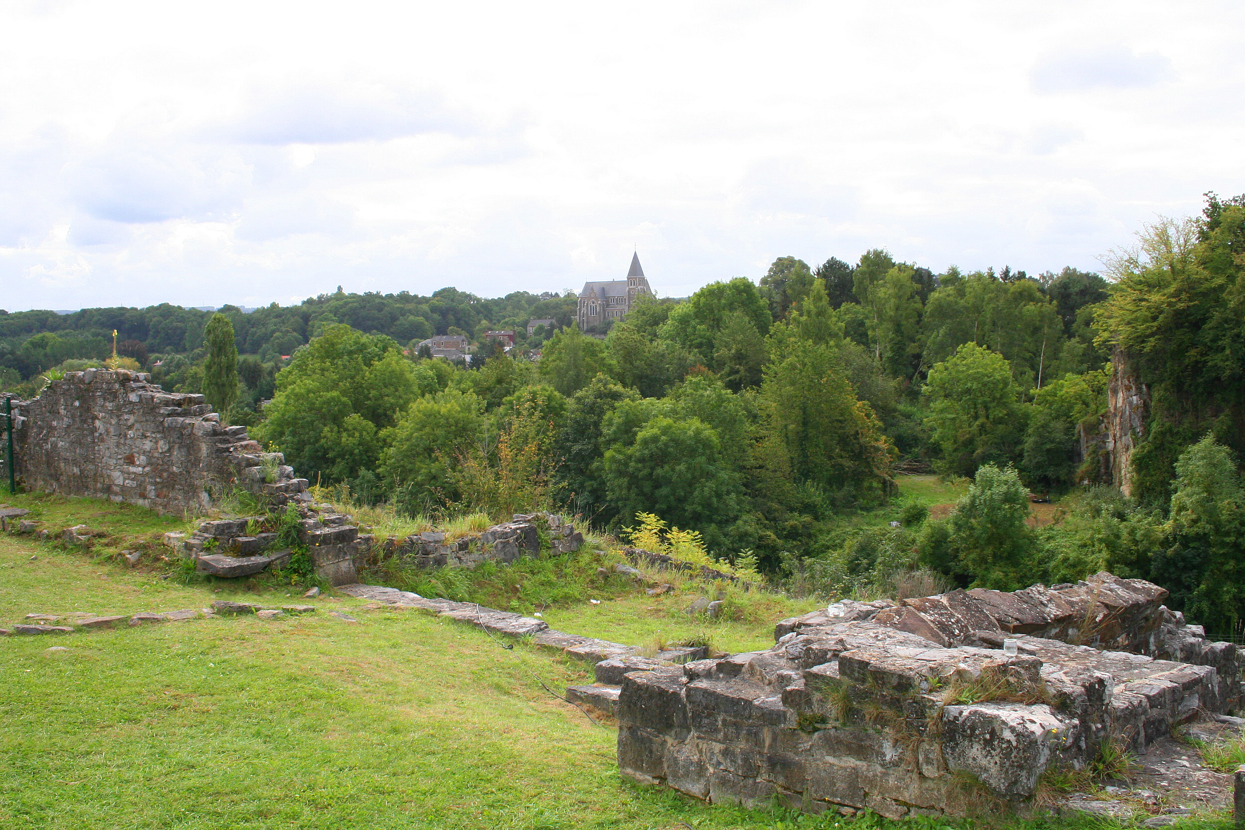 Moha (Belgium), the castle ruins (XIth century.